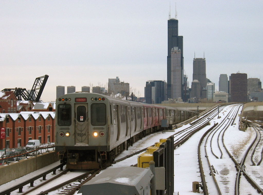 A Red Line CTA train approaches Cermak-Chinatown station through Cermak Junction in January 2004. Amongst other buildings the Sears Tower is prominent in the background.